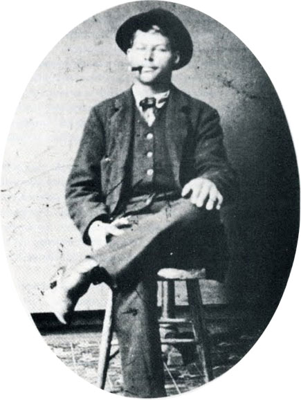 Frank Stilwell of Tombstone, Arizona was a sometimes outlaw Cowboy who had been a teamster, miner, and livery stable owner. During the Coroner's inquest into Morgan Earp's murder, he was identified as one of those who ambushed Earp. When Stilwell was not prosecuted for lack of evidence, Wyatt Earp and others set out on a vendetta to kill him and others they believed were responsible for Morgan's murder. Frank was murdered in the Tucson rail yard on March 20, 1882.